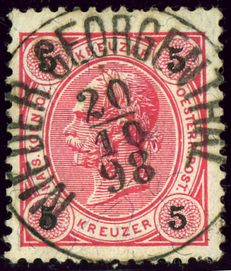 Austrian KK 5 kreuzer stamp, cancelled in NEUER GEORGENTHAL in 1898, Bohemia